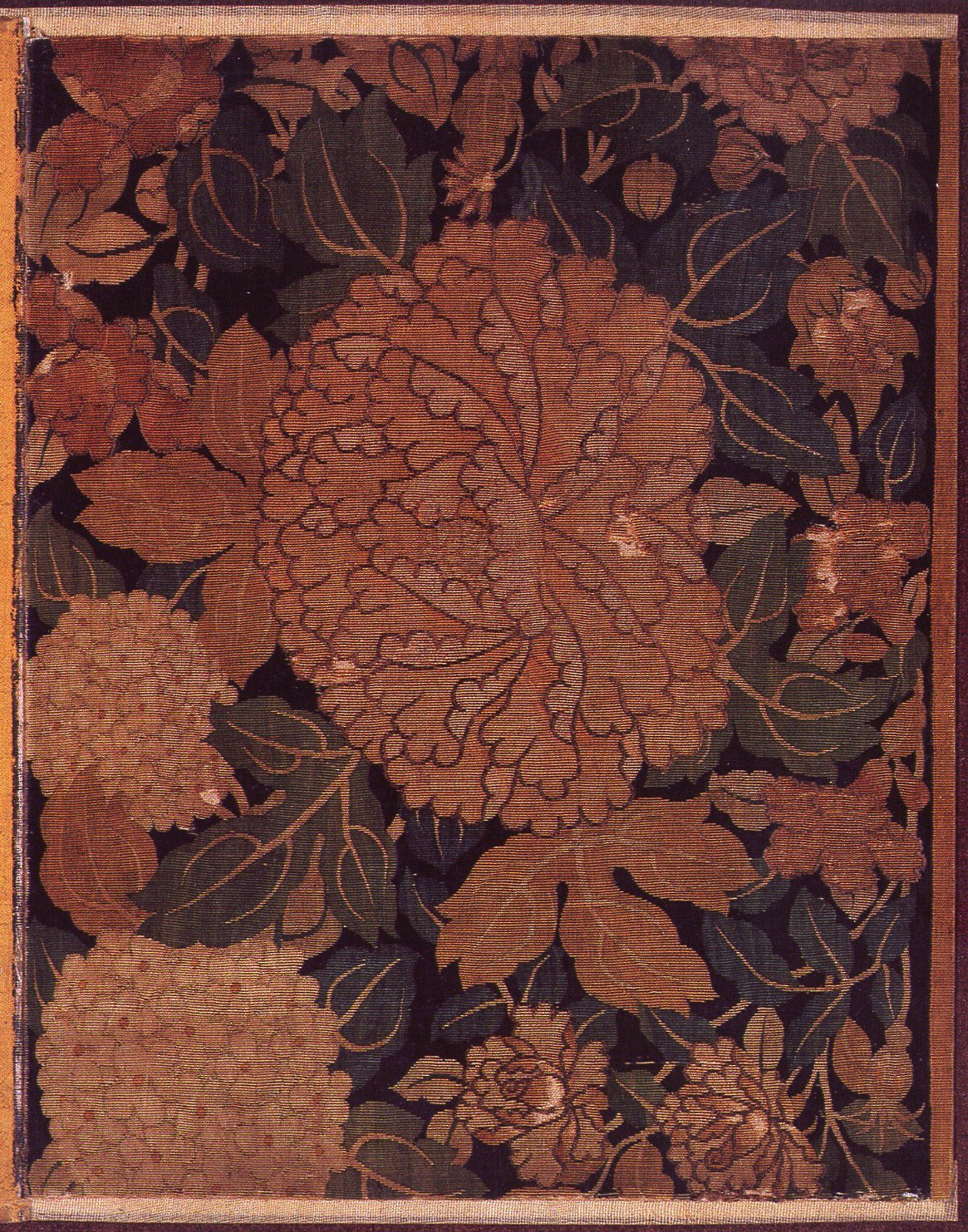 Song Dynasty silk tapestry cover for the 'Admonitions Scroll' attributed to Gu Kaizhi